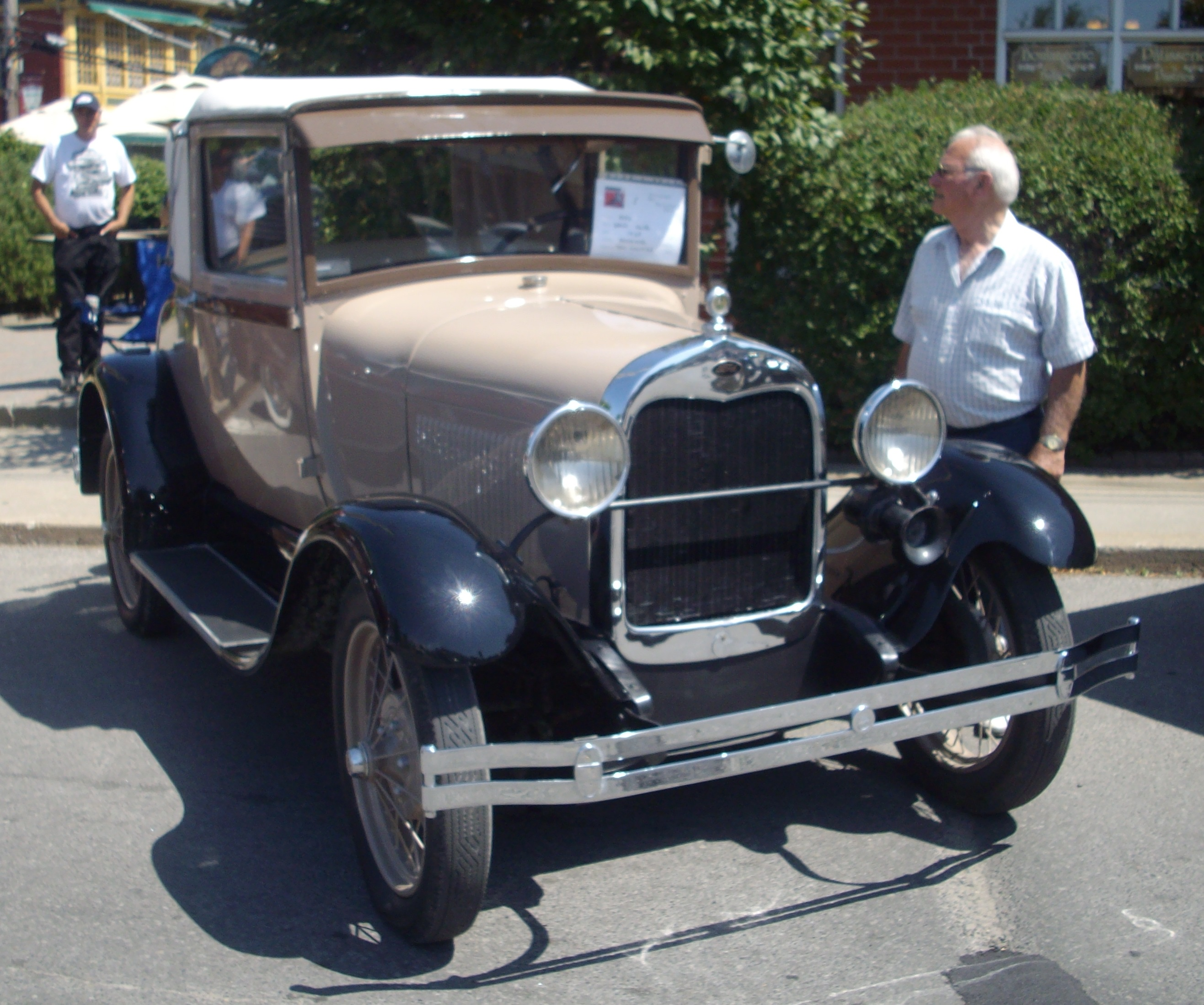 1929 Ford Model A photographed in Hudson, Quebec, Canada at Auto classique Hudson.